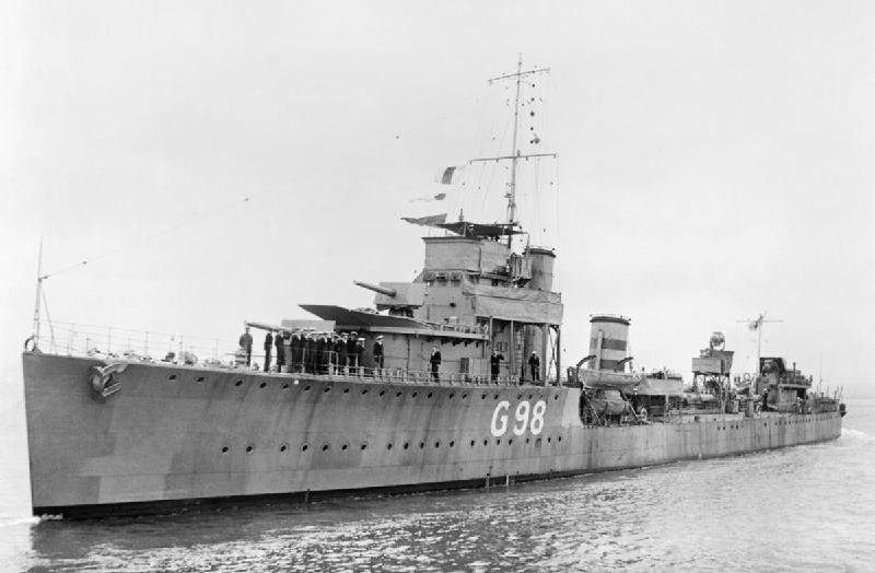 Photograph of British V class destroyer HMS Venomous.